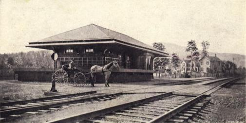 An old postcard image of the station at the sunken town of Brown's Station, New York. It was moved up the hill on it's north side to the relocated town of Ashokan, New York to give way for the Ashokan Reservoir.